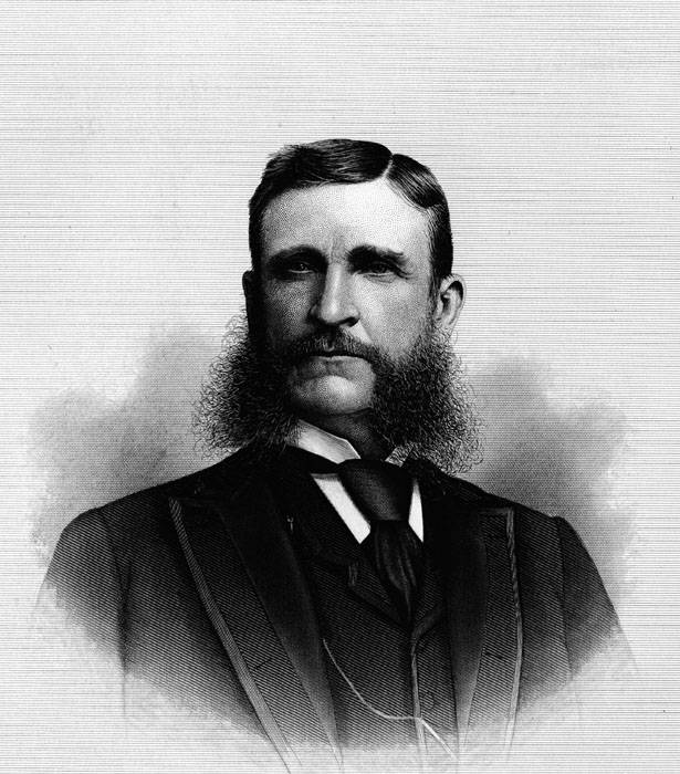 Photo of John Thomas Caine, delegate to the United States House of Representatives from the Territory of Utah